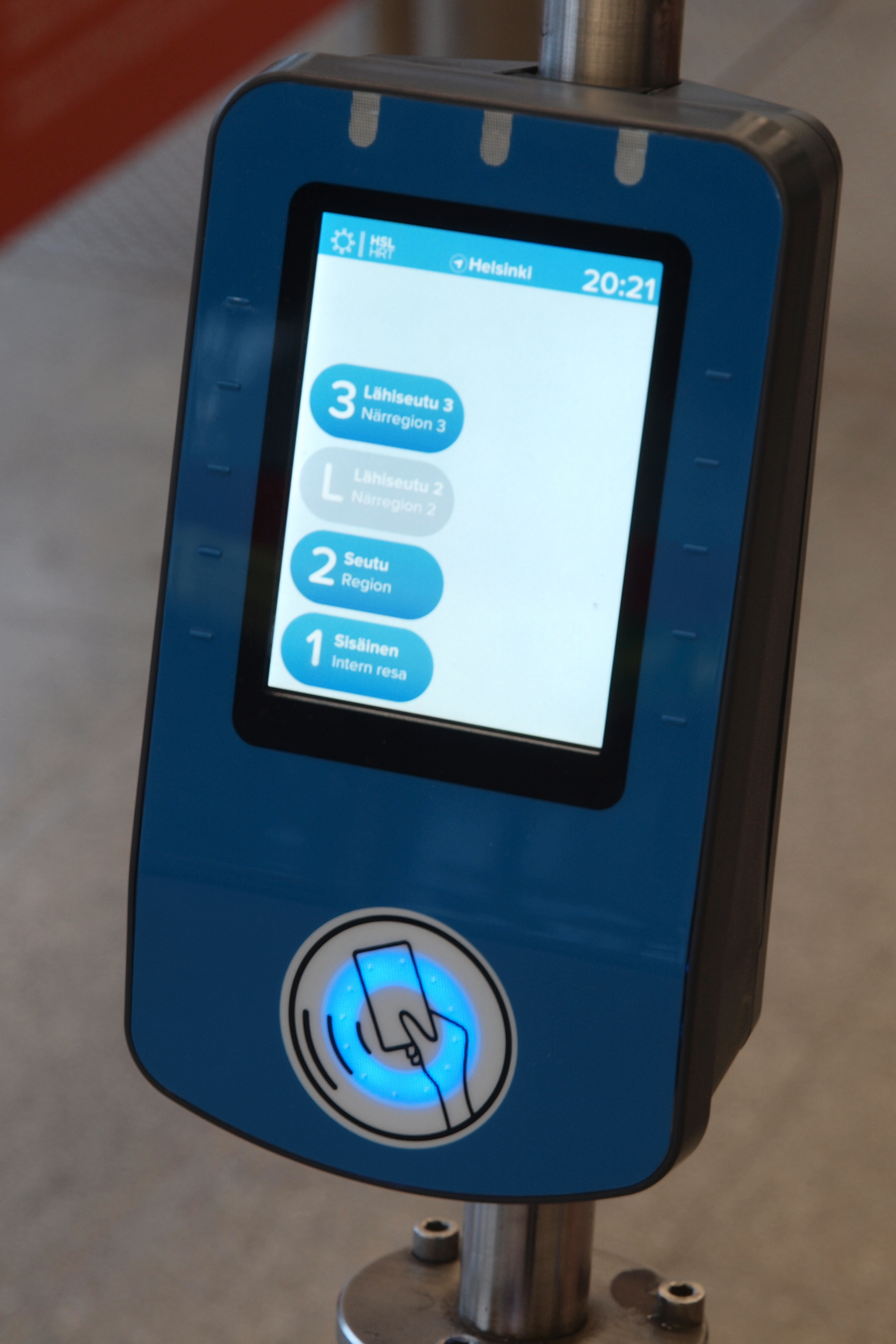 A new ticket reader machine at Ruoholahti metro station, cropped from the original picture.